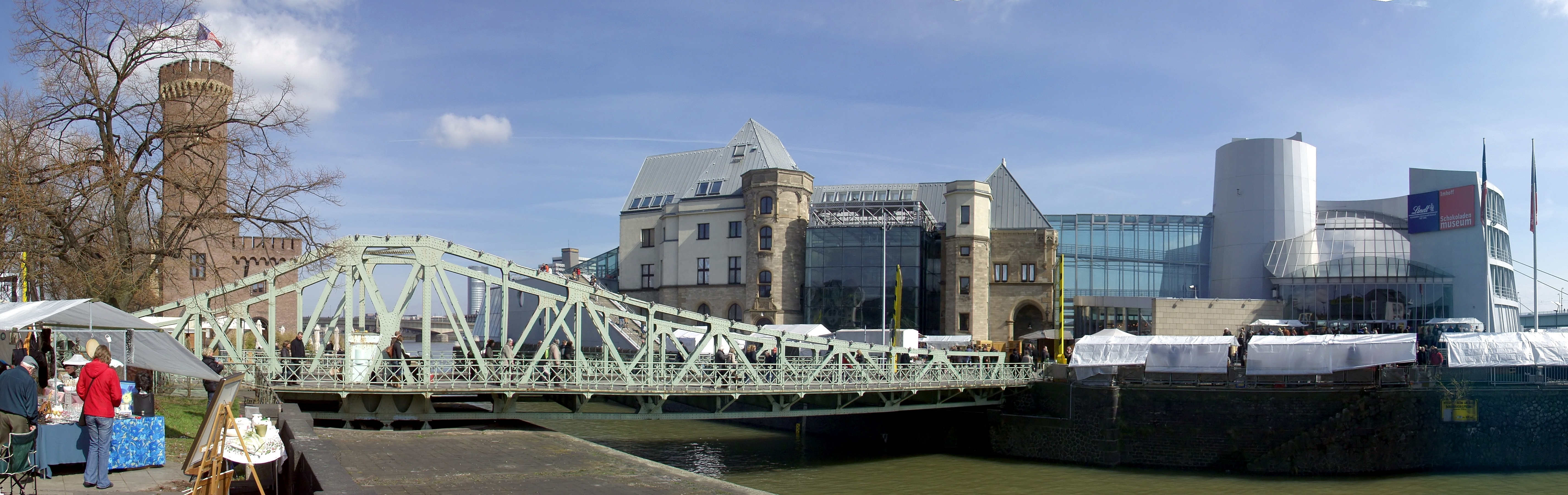 Swing brigde over Rheinauhafen, Imhoff-Schokoladenmuseum This is a photograph of an architectural monument.